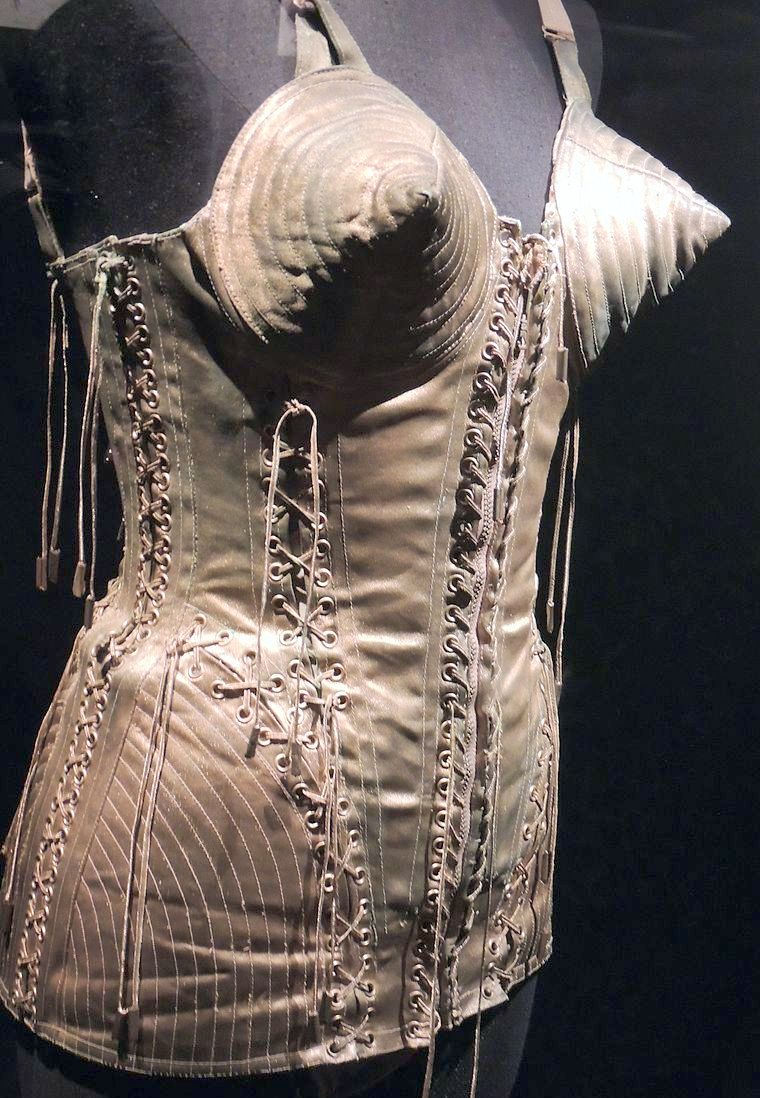 Iconic corset by Jean Paul Gaultier worn by Madonna during her 1990 Blond Ambition World Tour